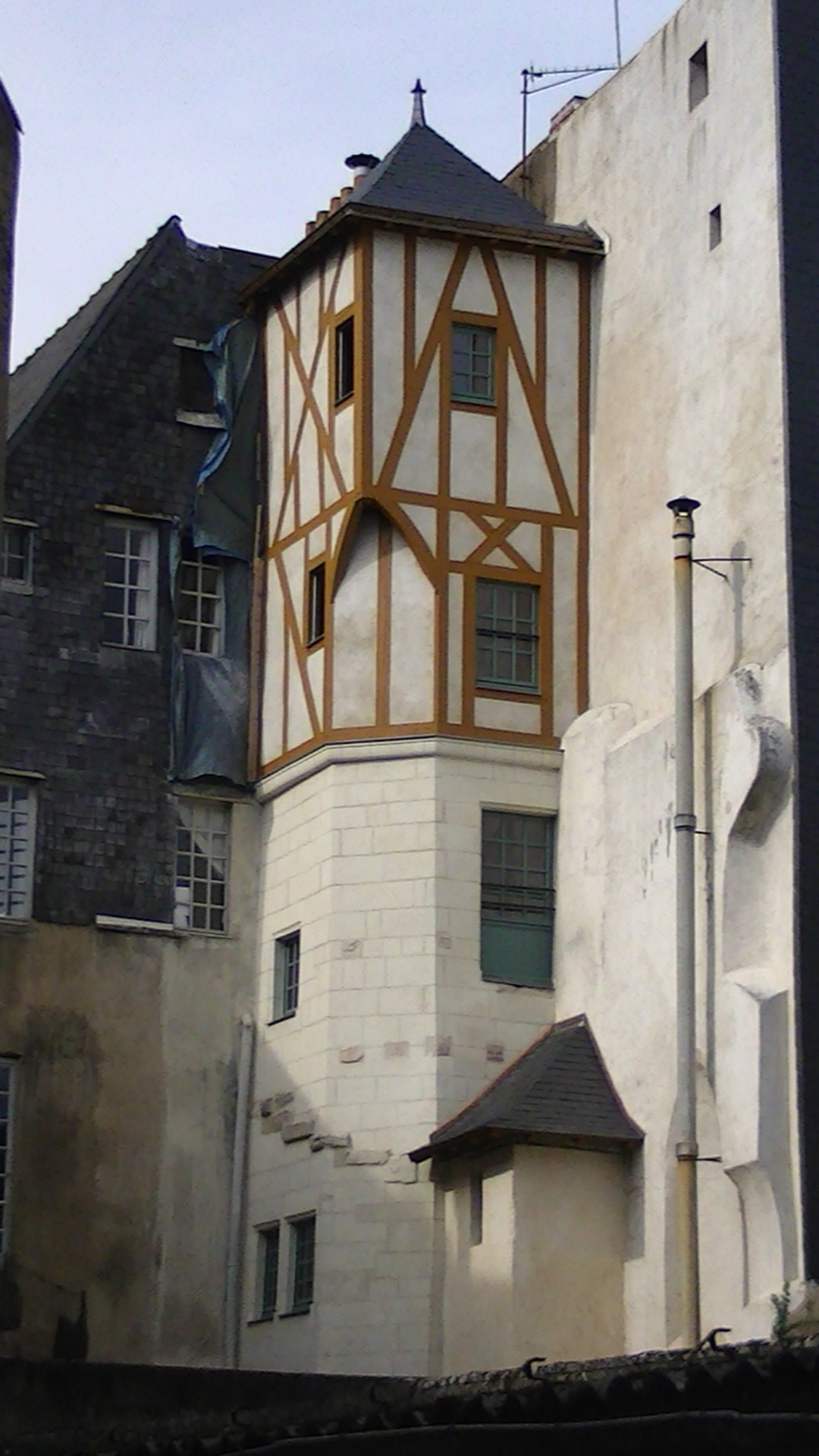 7 rue de la Juiverie, Nantes, seen from Rue des Echevins